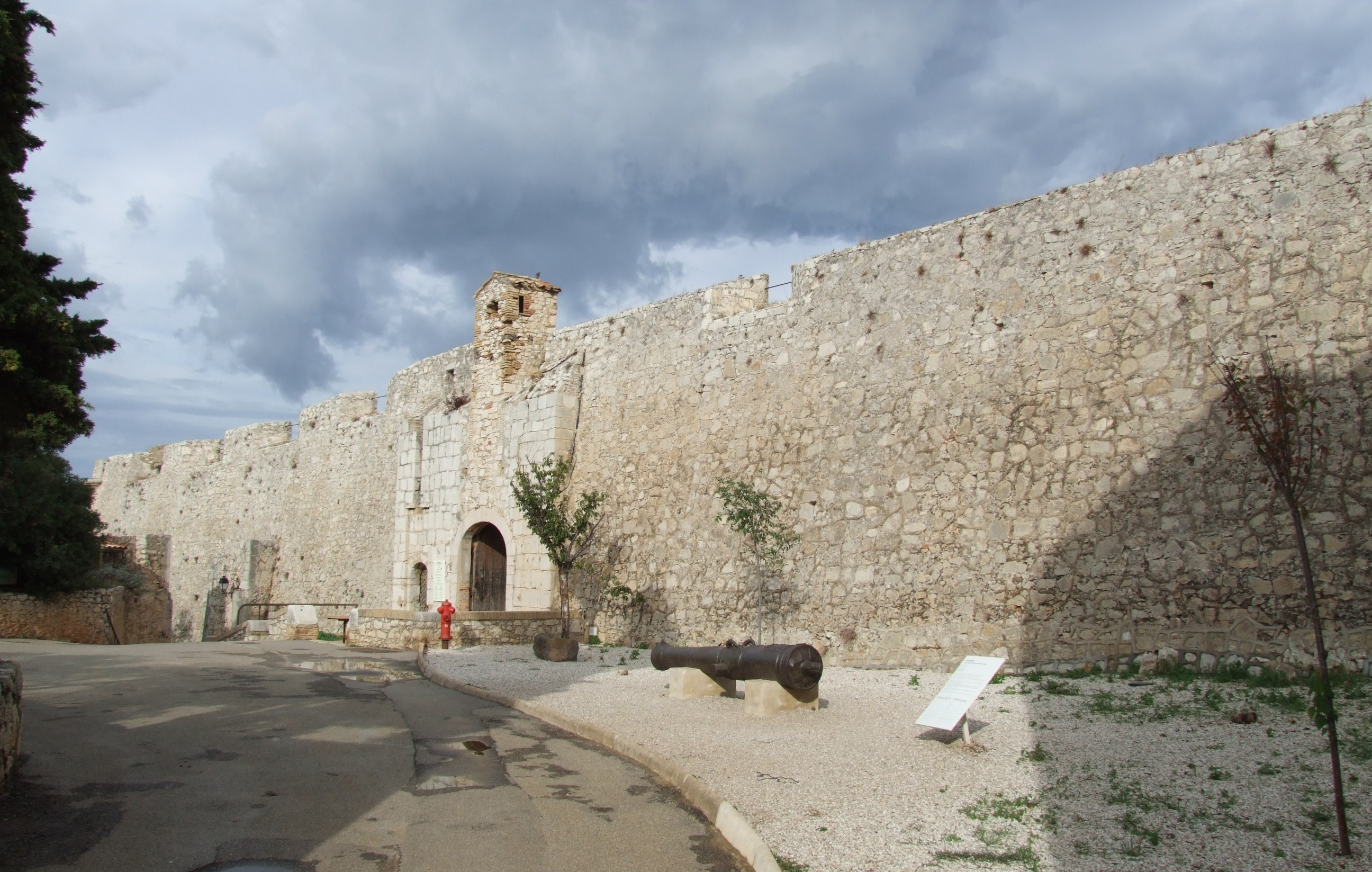 Lérins Islands, FRANCE